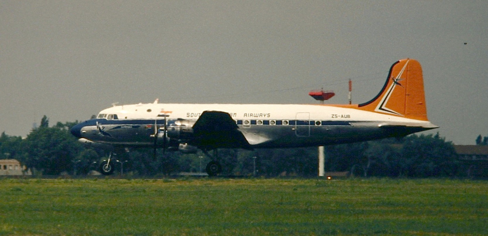 McDonnel Douglas DC-4 Skymaster in the old colours of South African Airways exhibited at the ILA 2000 in Berlin